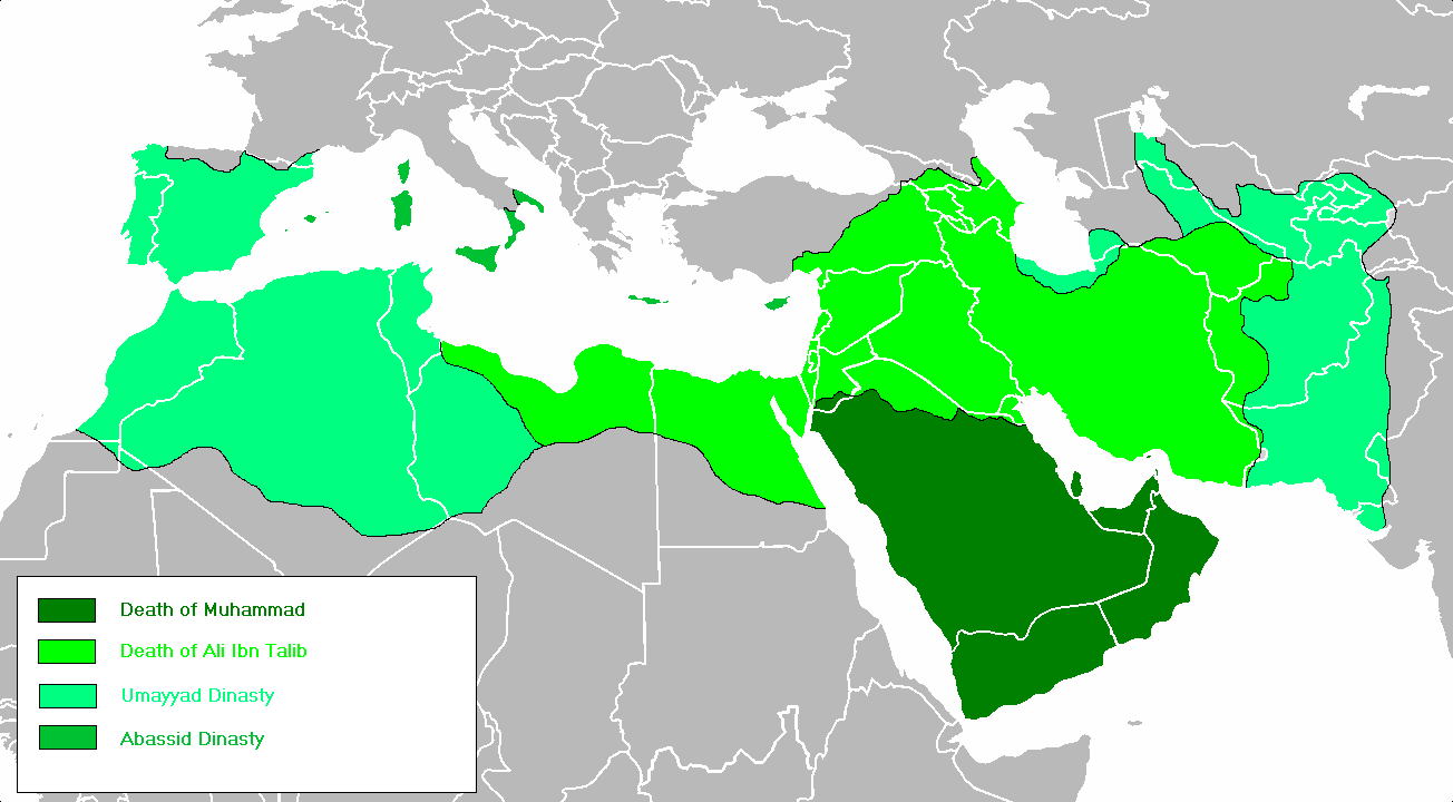 Isochronic Map of Arab Empire